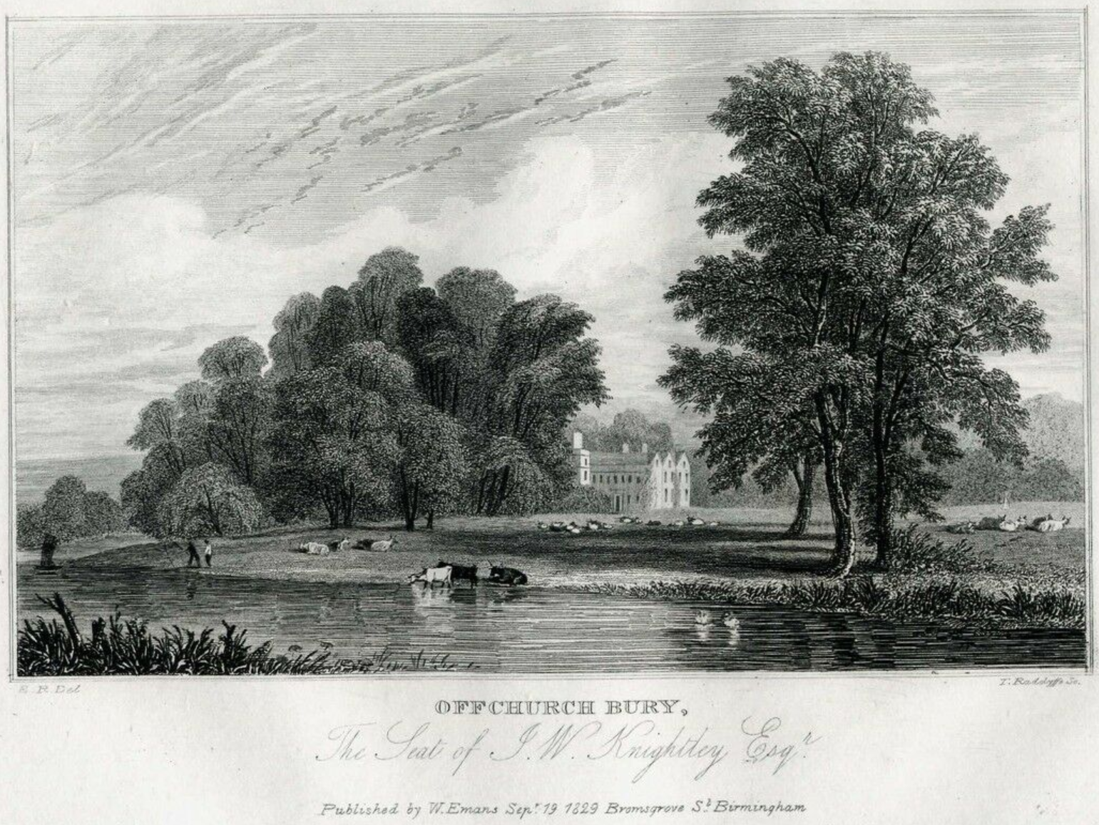 "Offchurch Bury, the seat of J.W. Knightley, Esq." Published by W.Emans, Sept 19, 1829, Bromsgrove St, Birmingham. River Leam in foreground. Offchurch Bury is the manor house of Offchurch, Warwickshire. Much of the house was demolished before 1958 and now only one wing survives, as a smaller house.